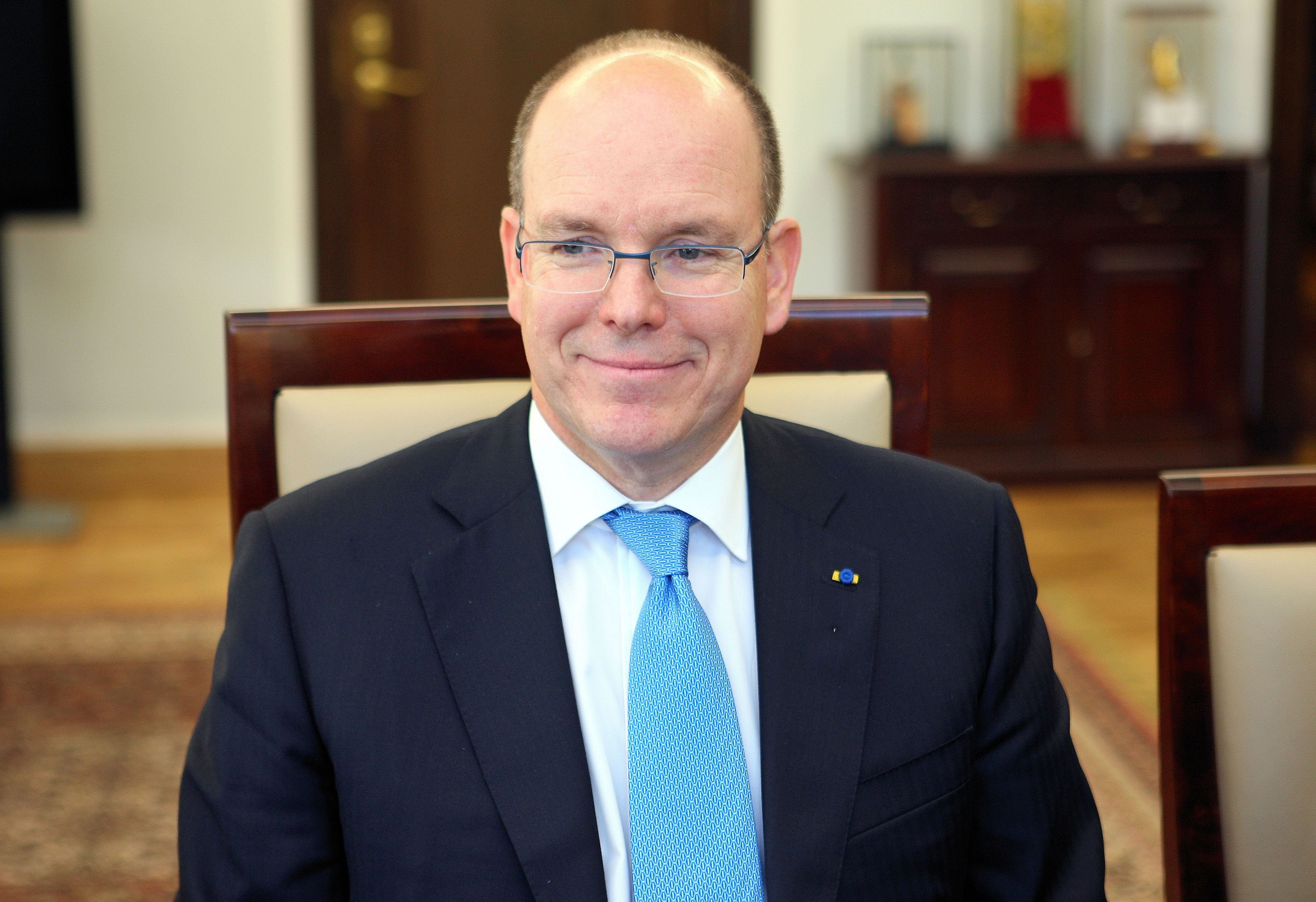 Albert II, Prince of Monaco, in the Polish Senate